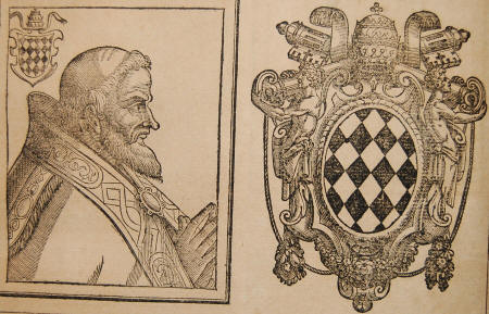 Pope Damasus II. and his coat of arms